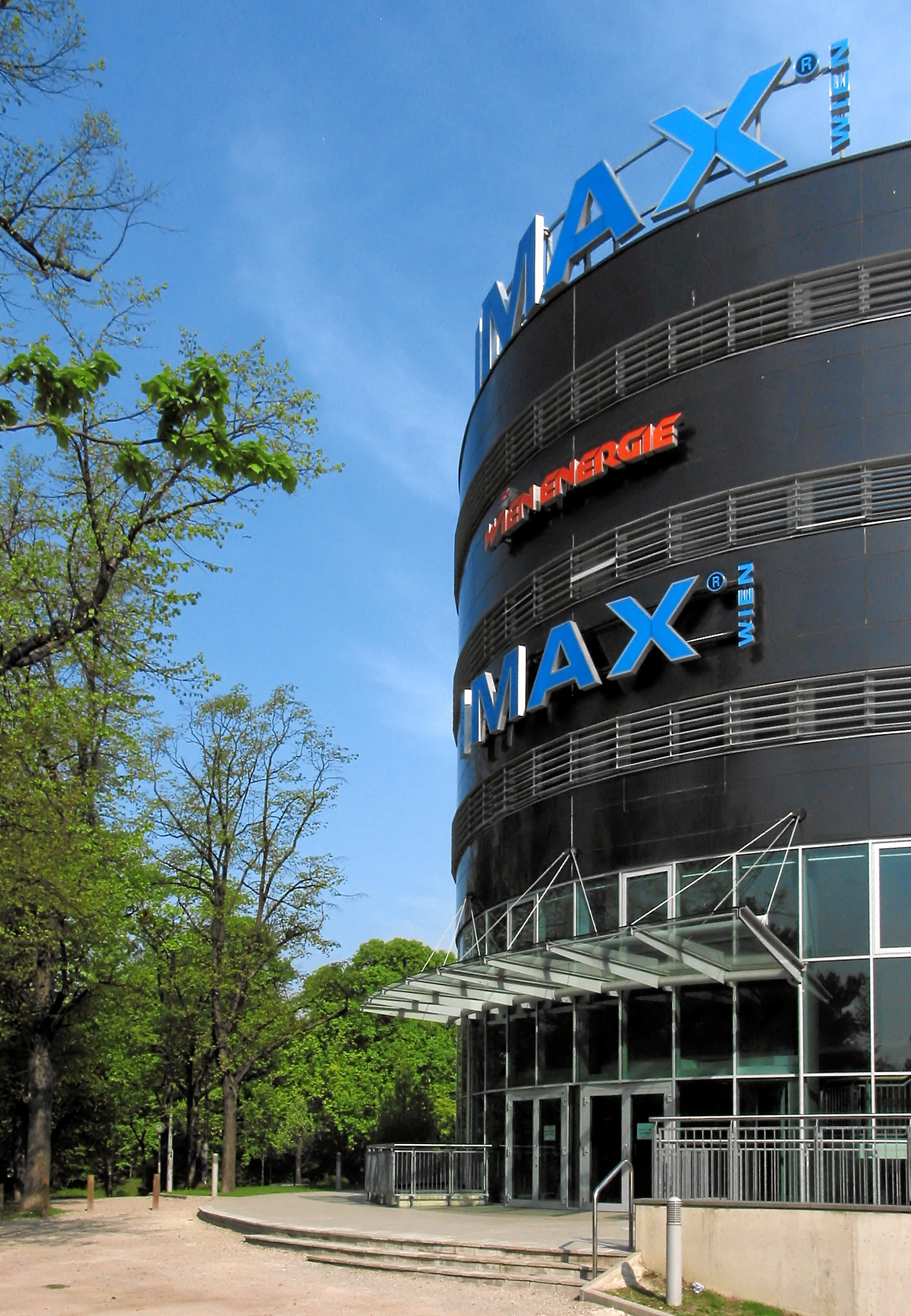 IMAX-Cinema in Vienna, which closed on November 16th, 2005